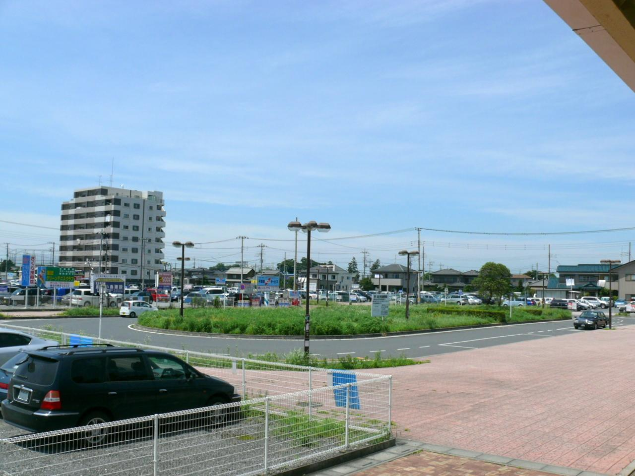 East Japan Railway Shin-Shiraoka Station West side district.